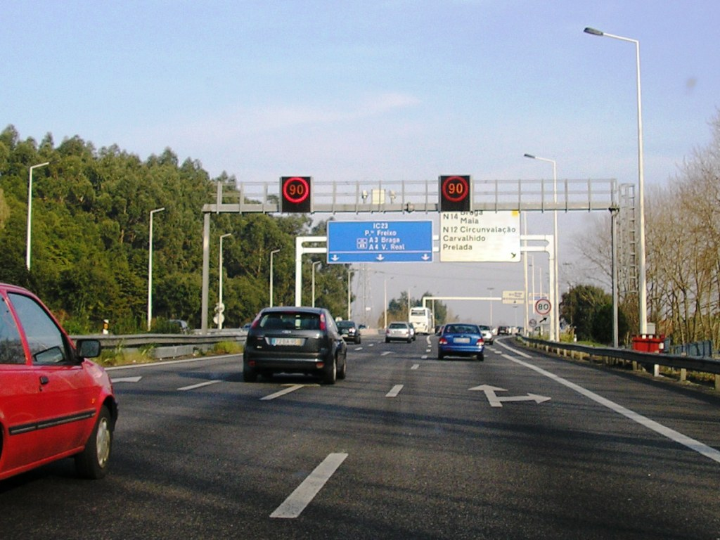 "Via de Cintura Interna" inner ring road in Porto, Portugal. Author: Manuel de Sousa.